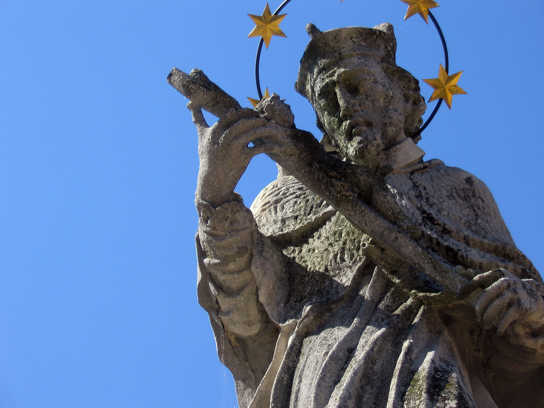 Detail of Saint John Nepomuk, statue in Nova Rise(Czech republic).